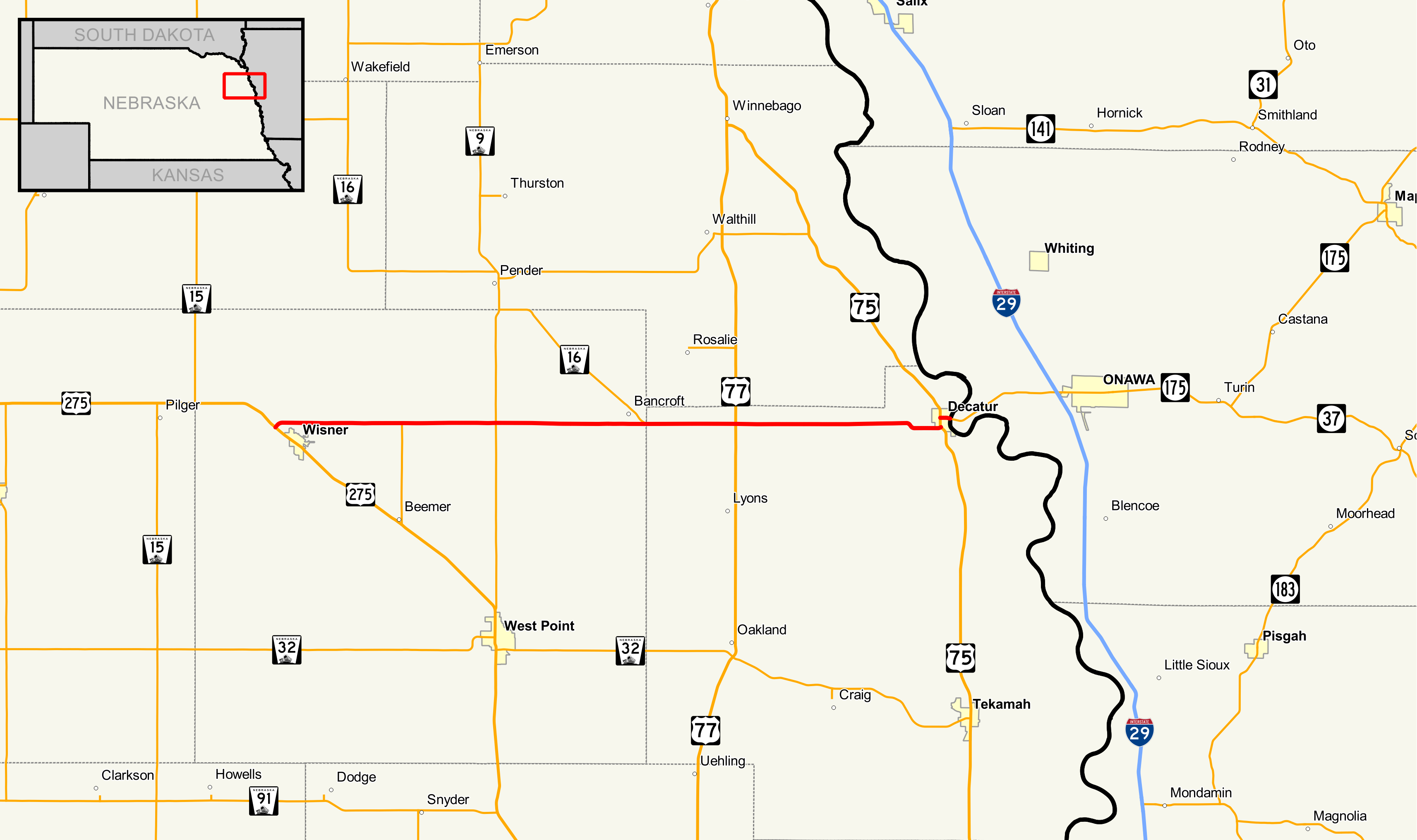 Map of Nebraska Highway 51 Data Sources: Nebraska Highways - - Dec 2016 Nebraska County Boundaries - - Dec 2016 Nebraska City Boundaries - - Dec 2016 This PNG graphic was created with QGIS